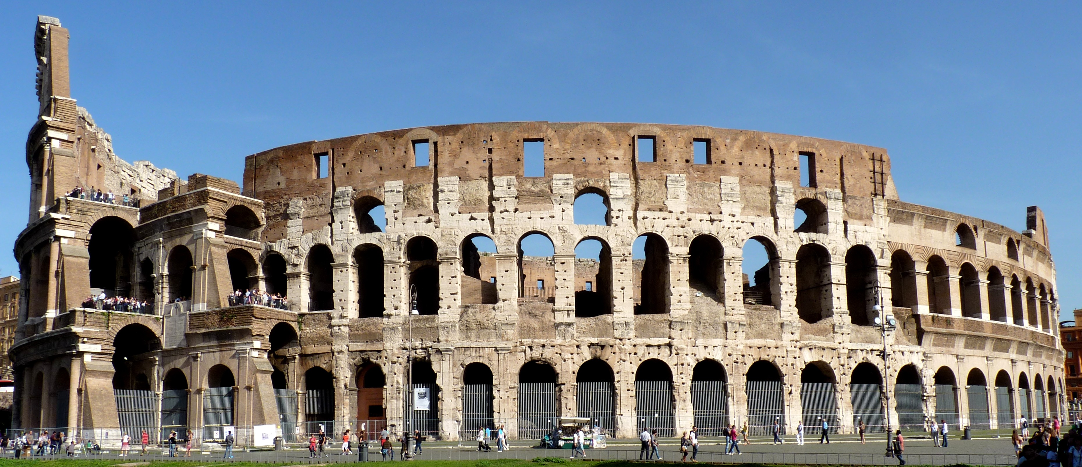 The Colosseum, or the Coliseum, originally the Flavian Amphitheatre is an elliptical amphitheatre in the centre of the city of Rome, Italy, the largest ever built in the Roman Empire, built of concrete and stone.